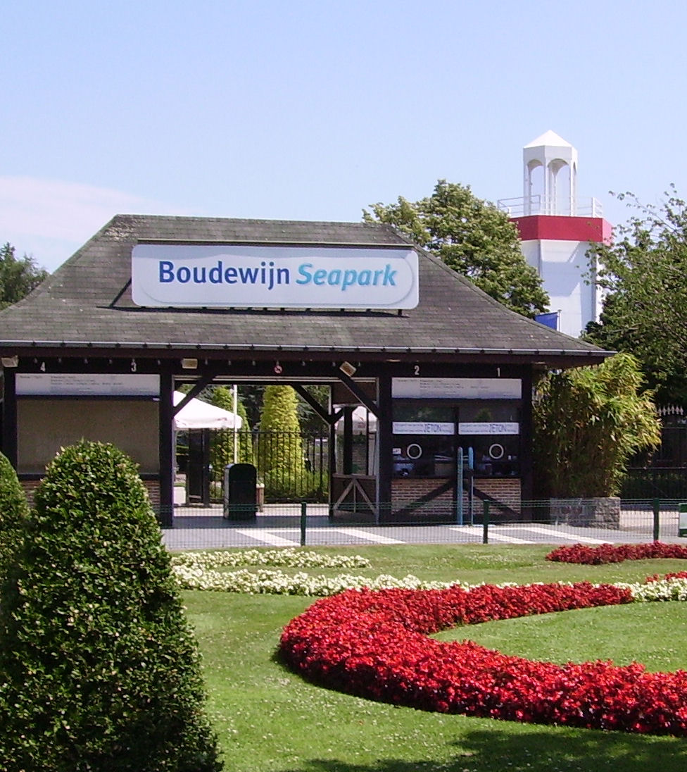 Boudewijnpark near Brugge, Belgium